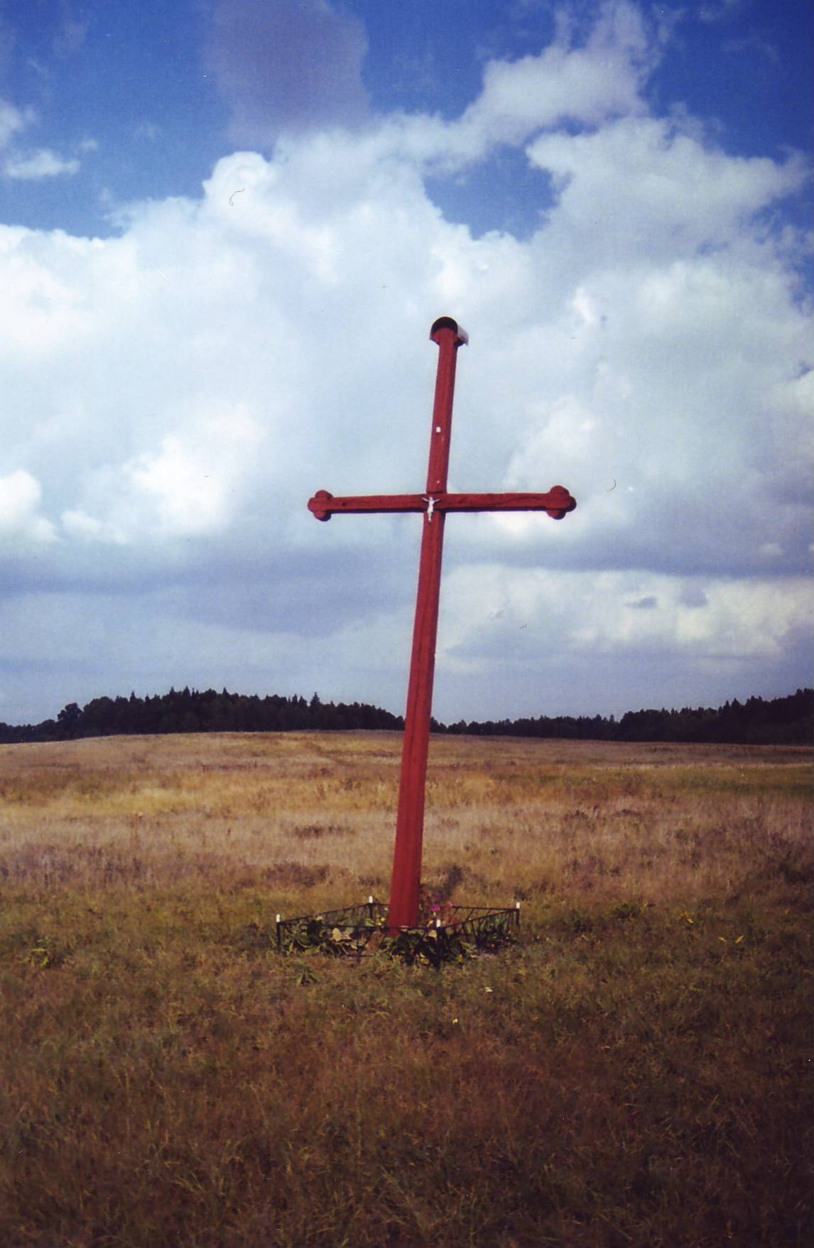 Kulaliai cross, Skuodas district, Lithuania